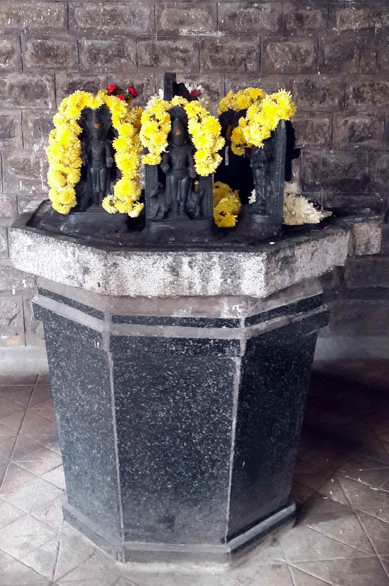 Nandi Tirtha Temple Malleswaram Bangalore